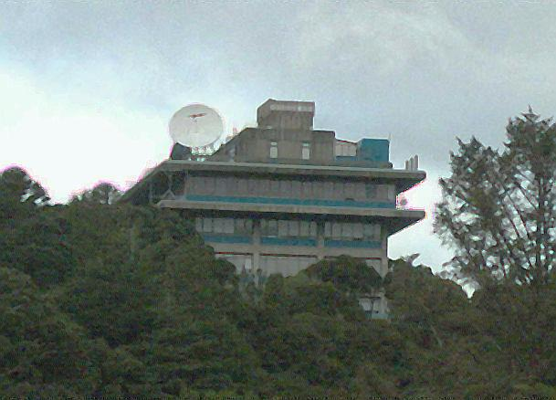 The New Zealand MetService building photographed from Tinakori Hill, from the same location (and time) as this view of the Wellington Botanic Garden.